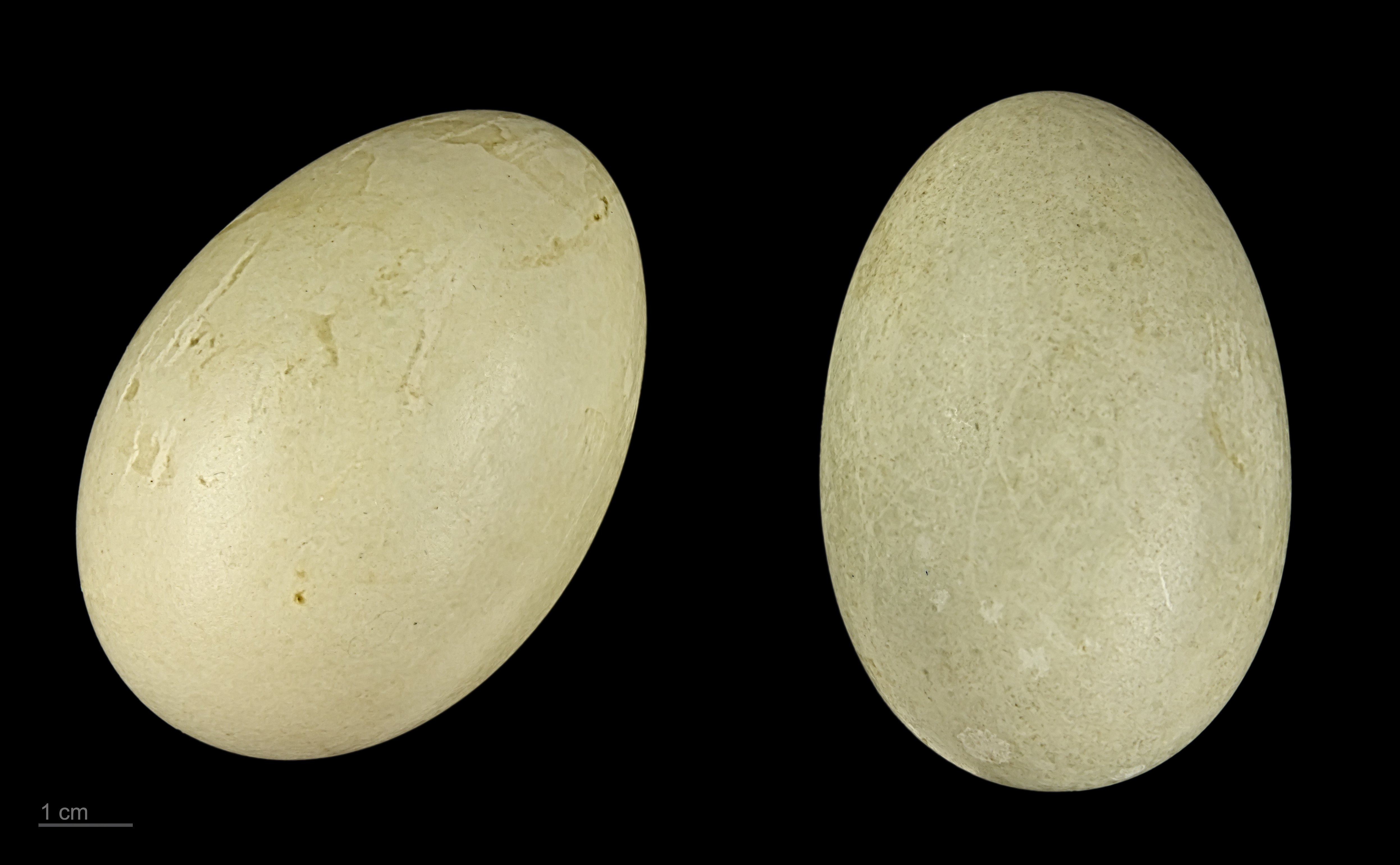 Eggs of common eider Two specimens of the same spawn ; collection of Jacques Perrin de Brichambaut.